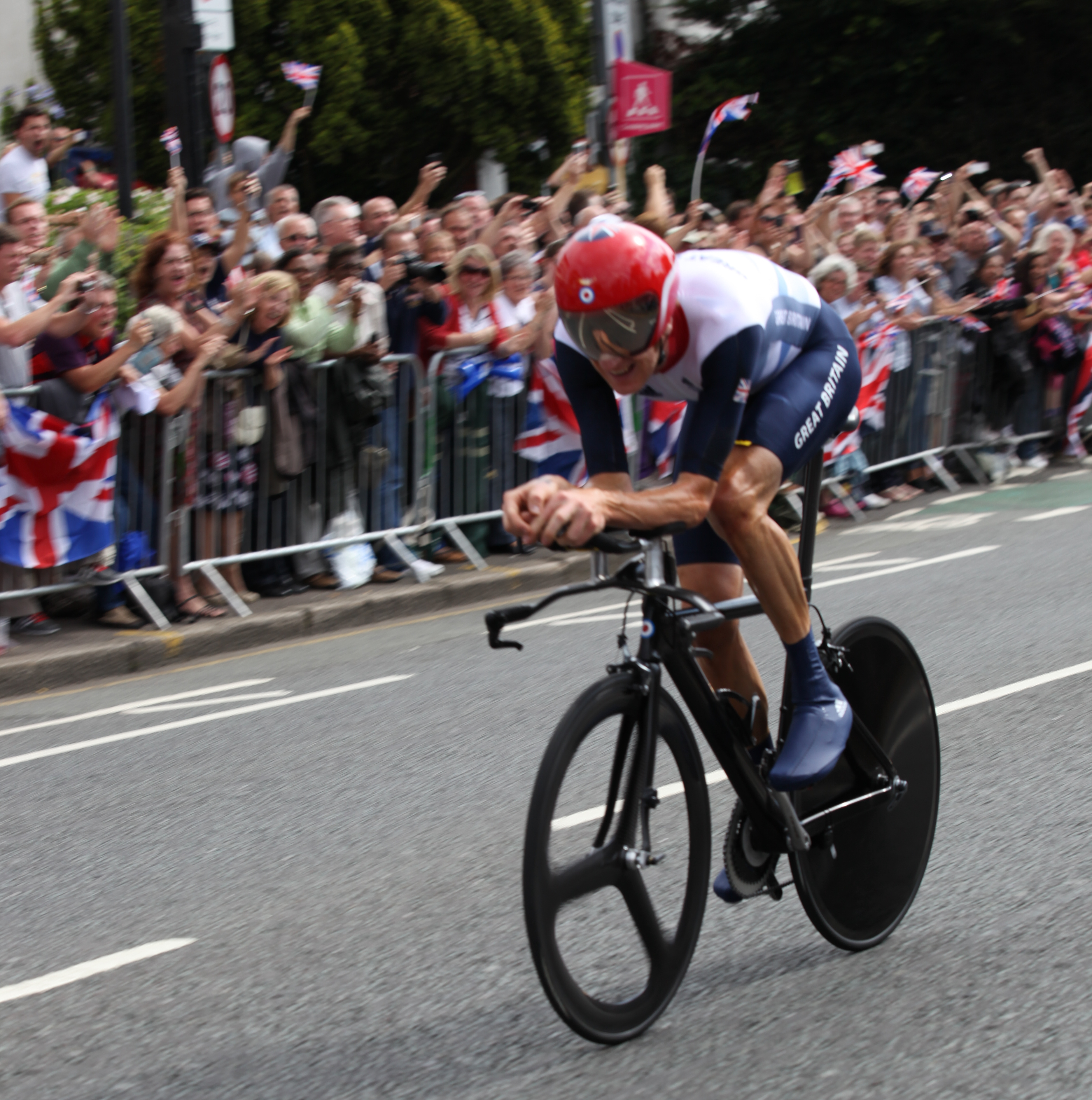 Bradley Wiggins At Portsmouth road Surbiton 10km from finish